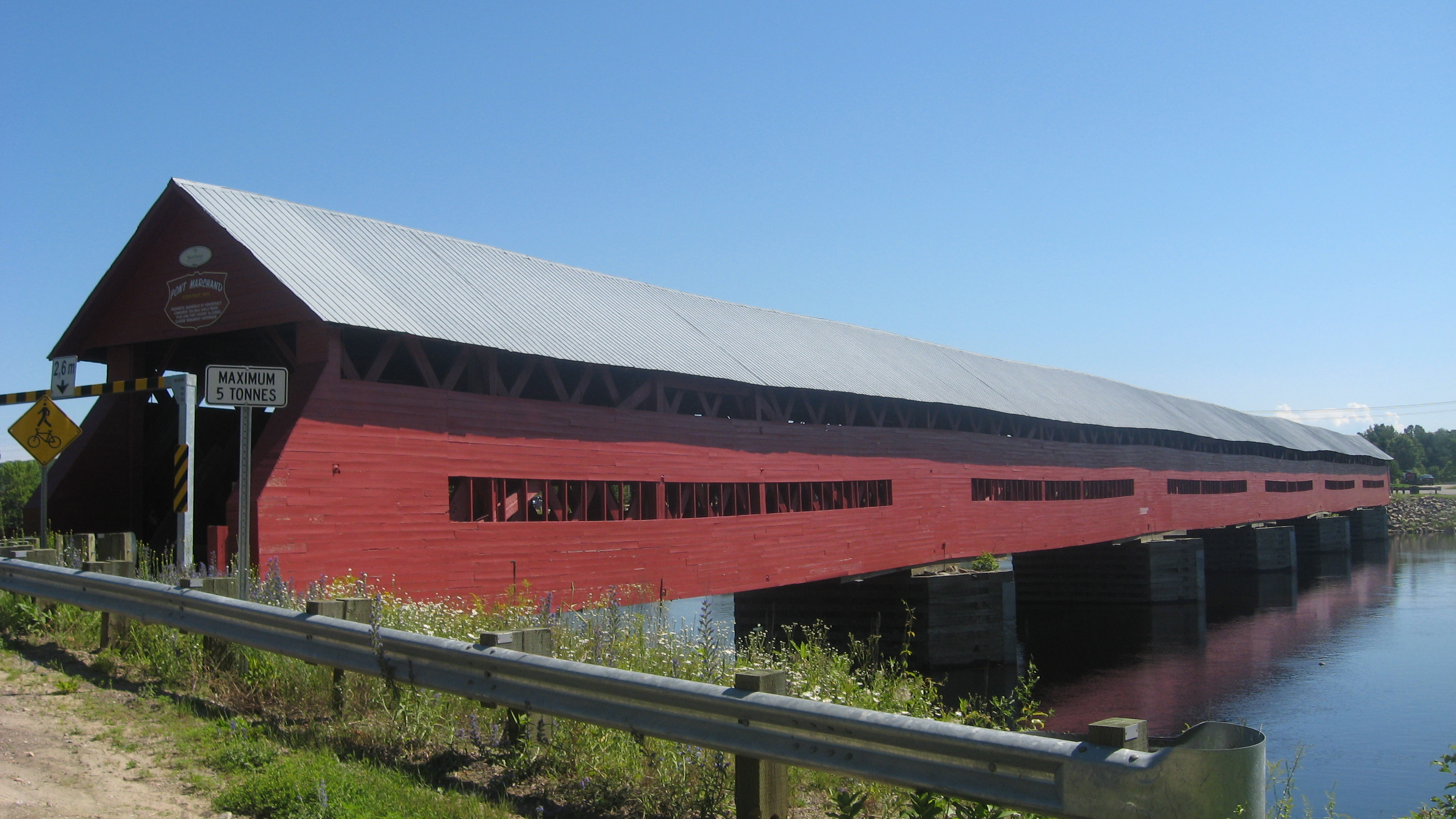 Marchand Bridge, Fort-Coulonge, Québec